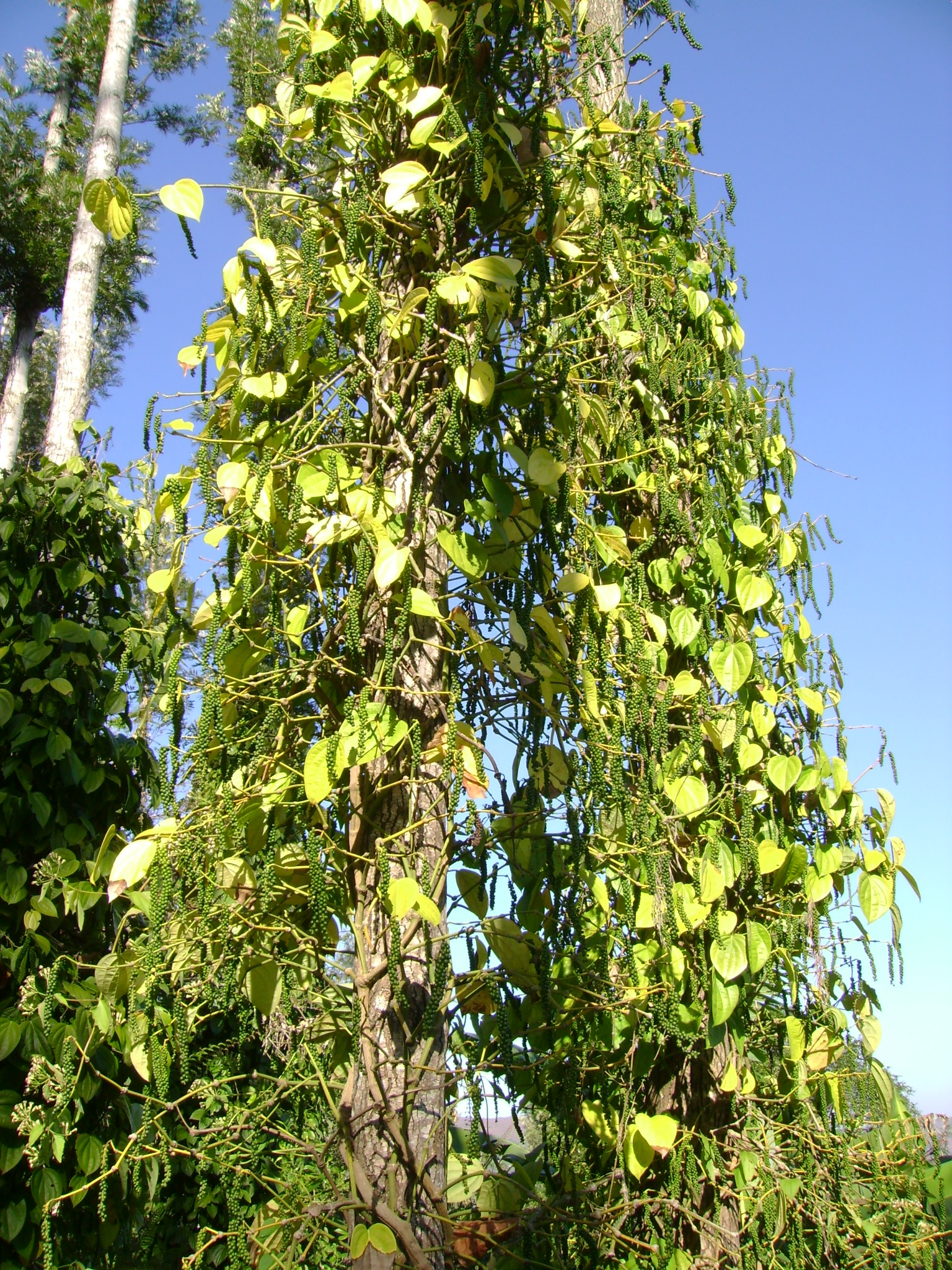 Pepper tree in Kolli Hills